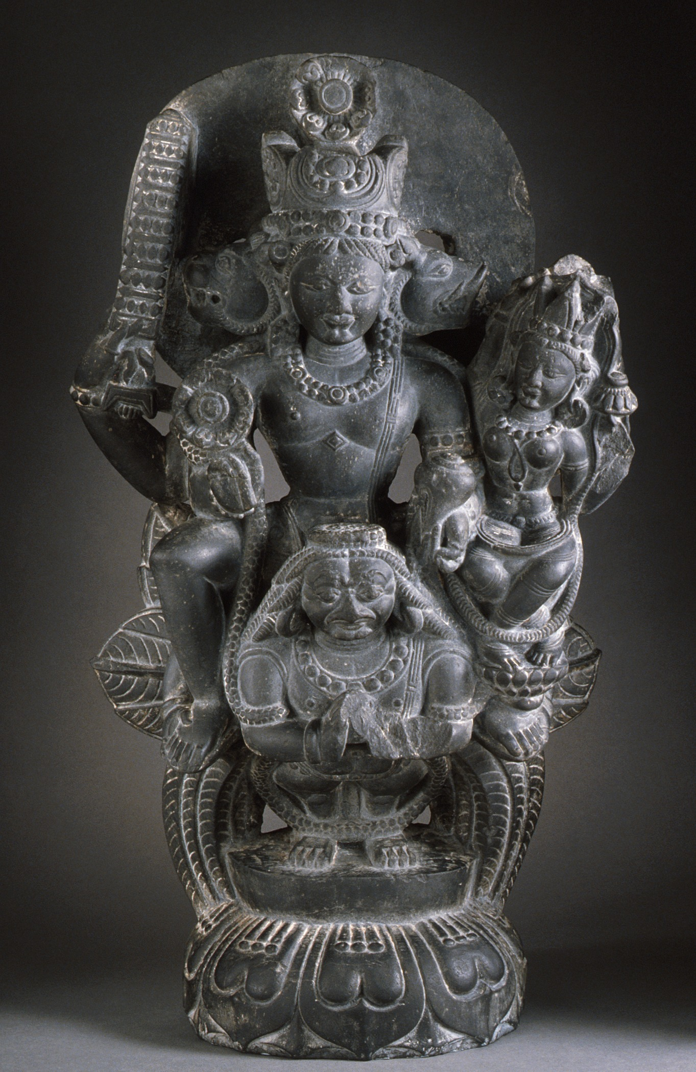 India, Jammu and Kashmir, Kashmir region, 11th century Sculpture Phyllite From the Nasli and Alice Heeramaneck Collection, Museum Associates Purchase (M.72.53.1) South and Southeast Asian Art